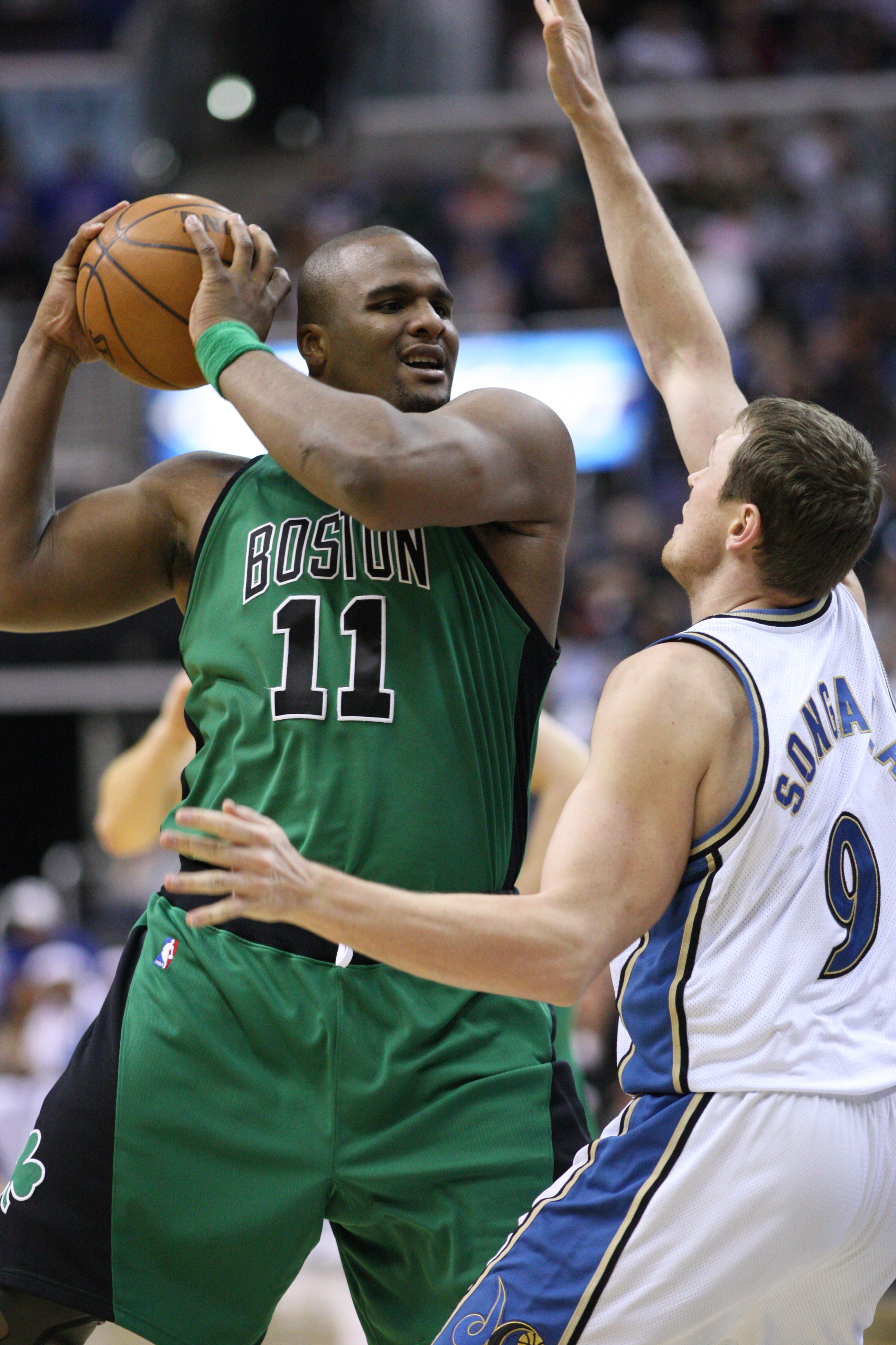 Glen Davis playing with the Boston Celtics